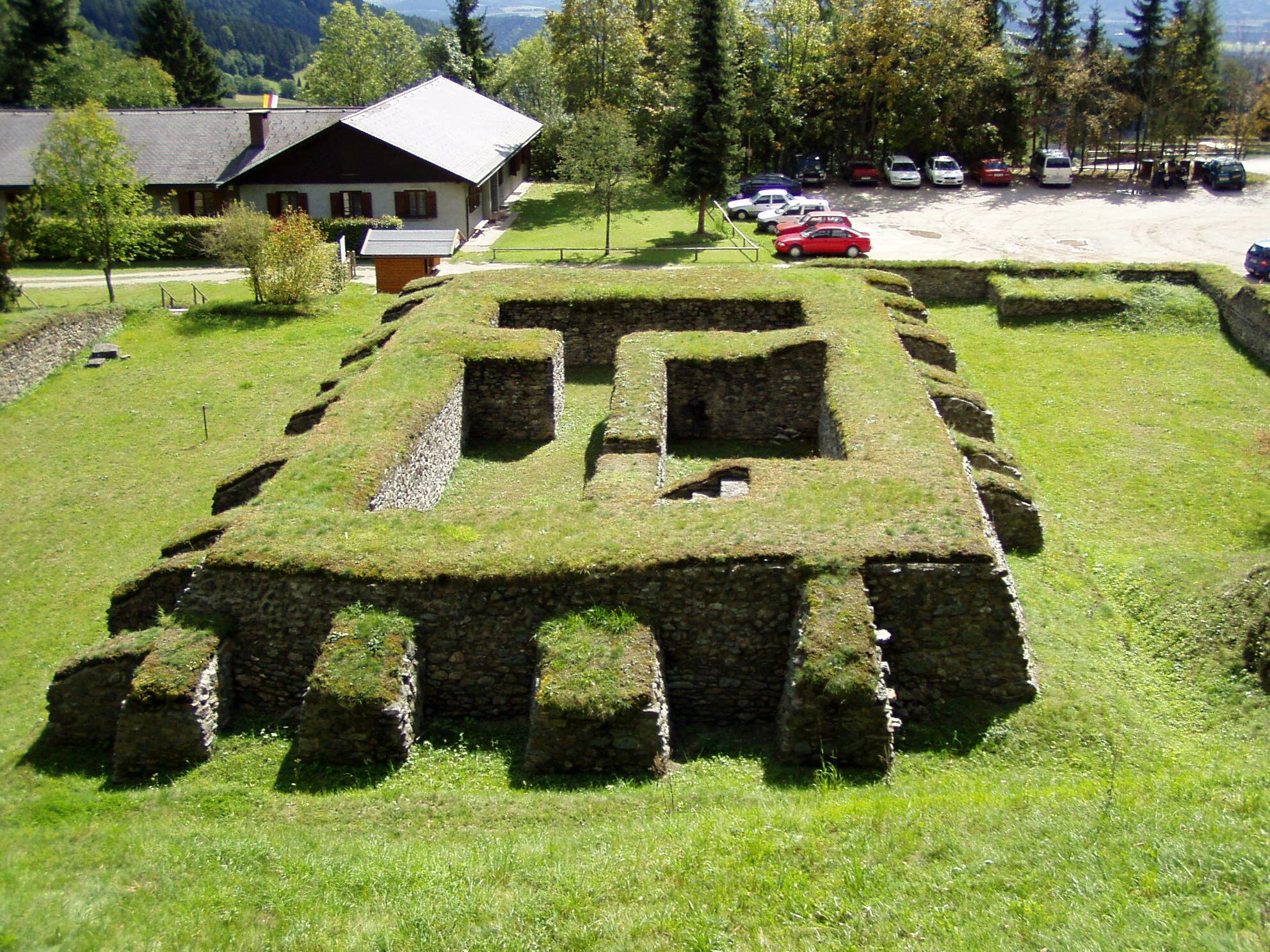 Stadt am Magdalensberg/City on the Magdalensberg, temple